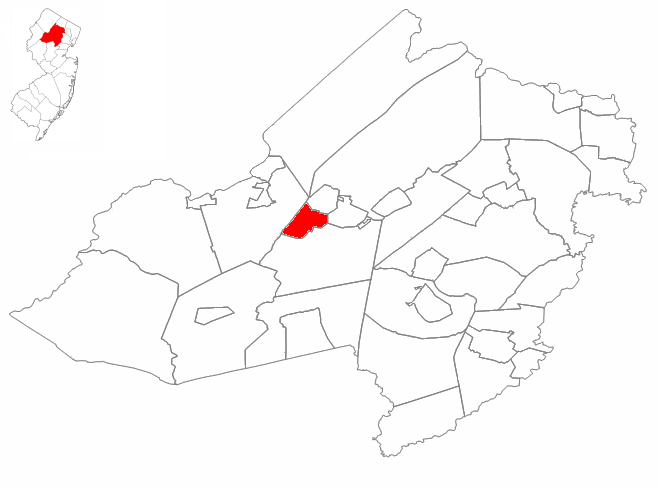 Position of Mine Hill Township (highlighted in red) in Morris County. Morris County's position in New Jersey is in turn highlighted in red.